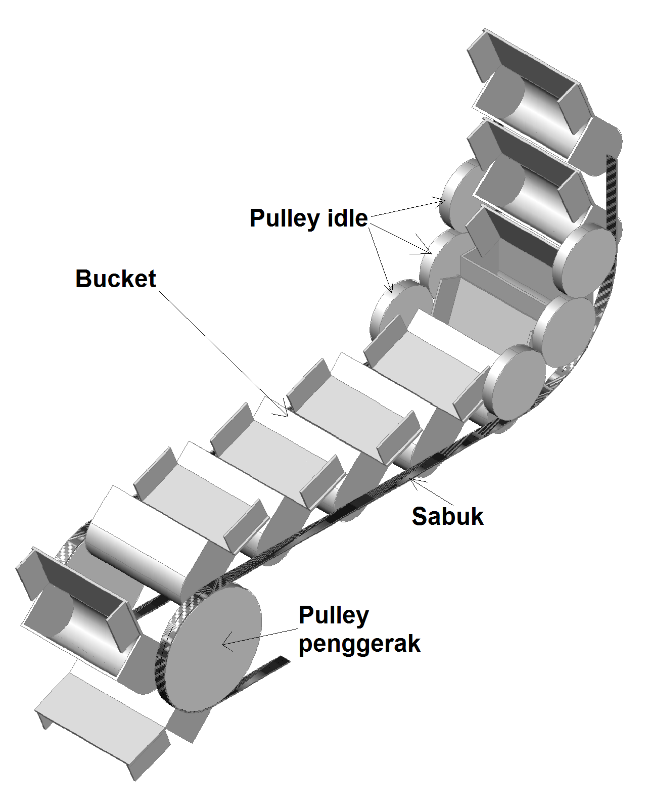 A simple CAD model of bucket conveyor, made by Indonesian student.